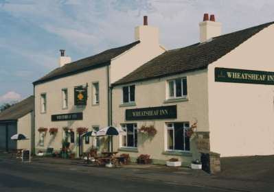 The Wheatsheaf Inn Brigham. Currently unlicensed.